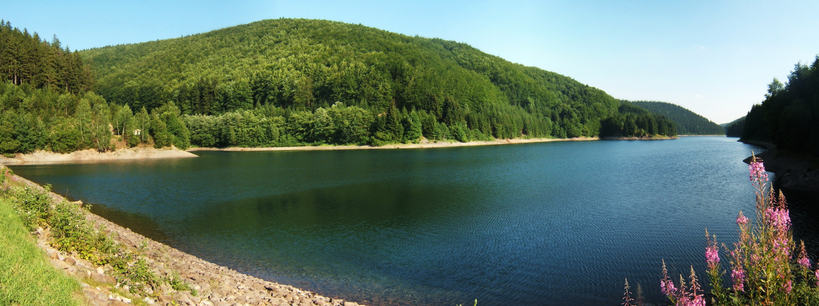 Talsperre Schönbrunn seen from the dam at the "Vorsperre Schleusegrund"Stitched from about 5 images.